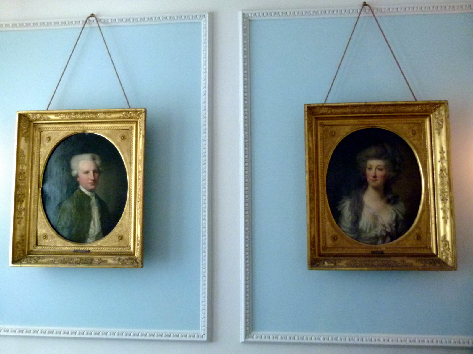 Two portraits by Johann Friedrich August Tischbein (1750-1812). Museum aan het Vrijthof - Bonhomme Salon.